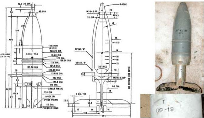 125mm HE-FRAG OF-19 round.